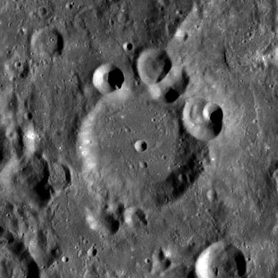 Nobel lunar crater - LROC image